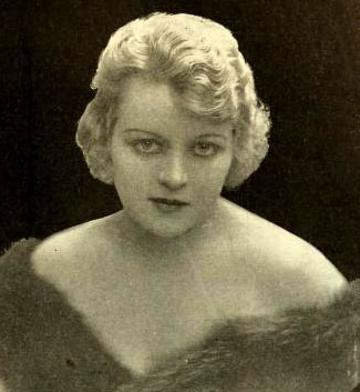 Advertisement in Moving Picture World, Aug 1917